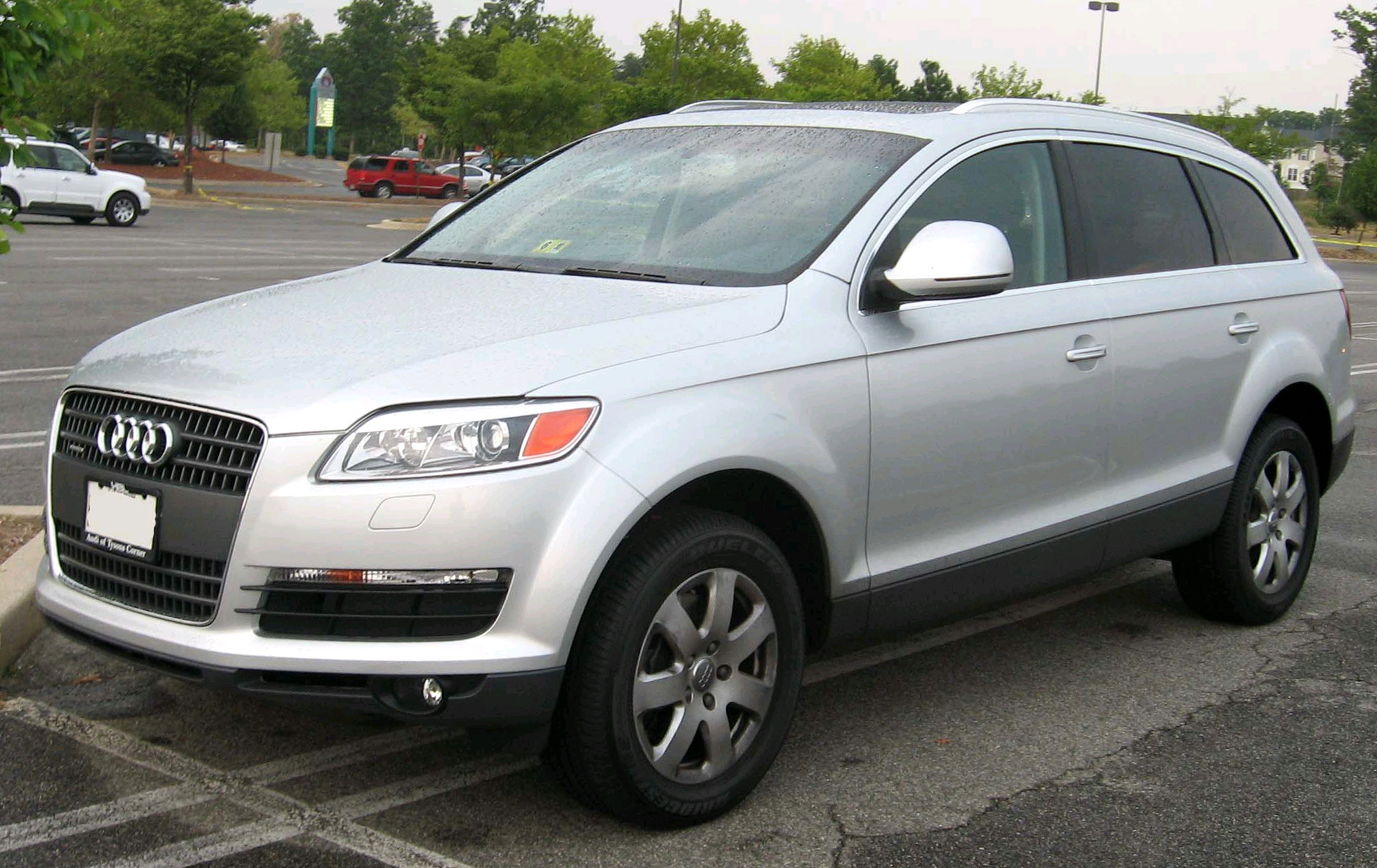 2007 Audi Q7 photographed in USA.